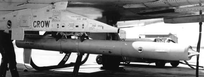 CROW (Creative Research On Weapons) guided test vehicle mounted on McDonnell F-4B Phantom II launch aircraft.